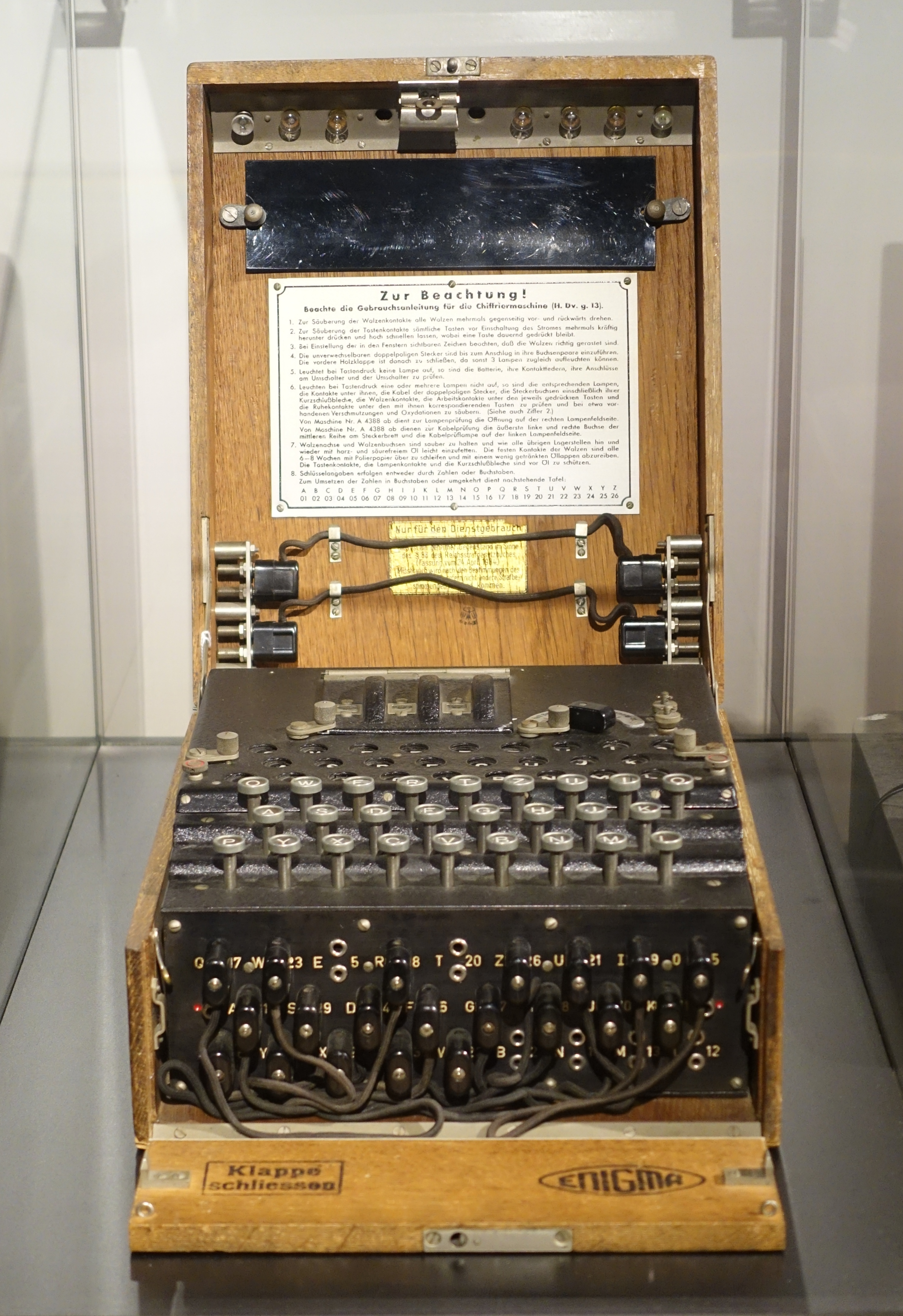 Exhibit in the National Electronics Museum, 1745 West Nursery Road, Linthicum, Maryland, USA. All items in this museum are unclassified. The museum permitted photography without restriction.